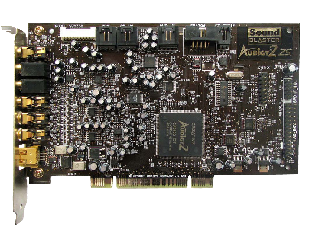 Creative Labs Audigy 2 ZS.